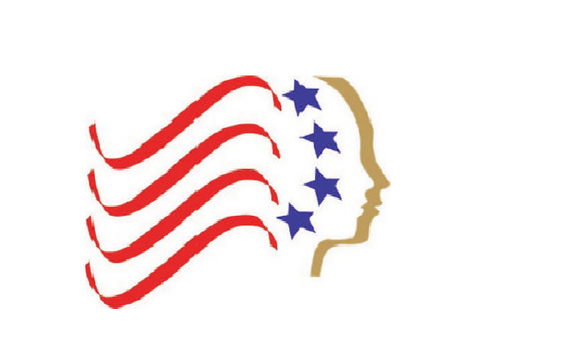 U.S. Army Women's Museum logo.